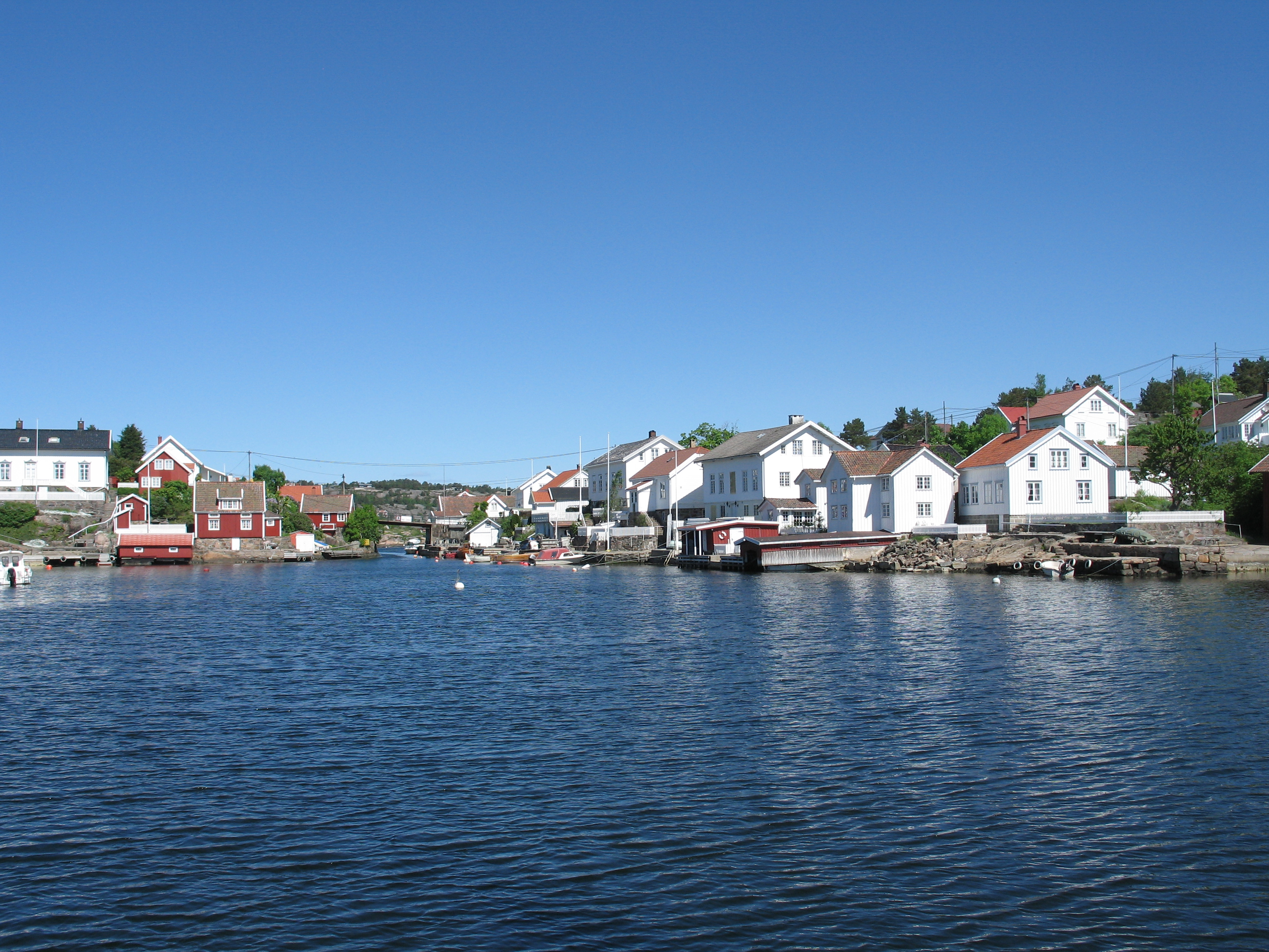 Lyngør, an outport in Tvedestrand